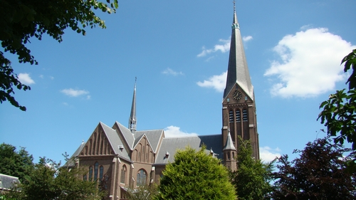 Church of Langeraar